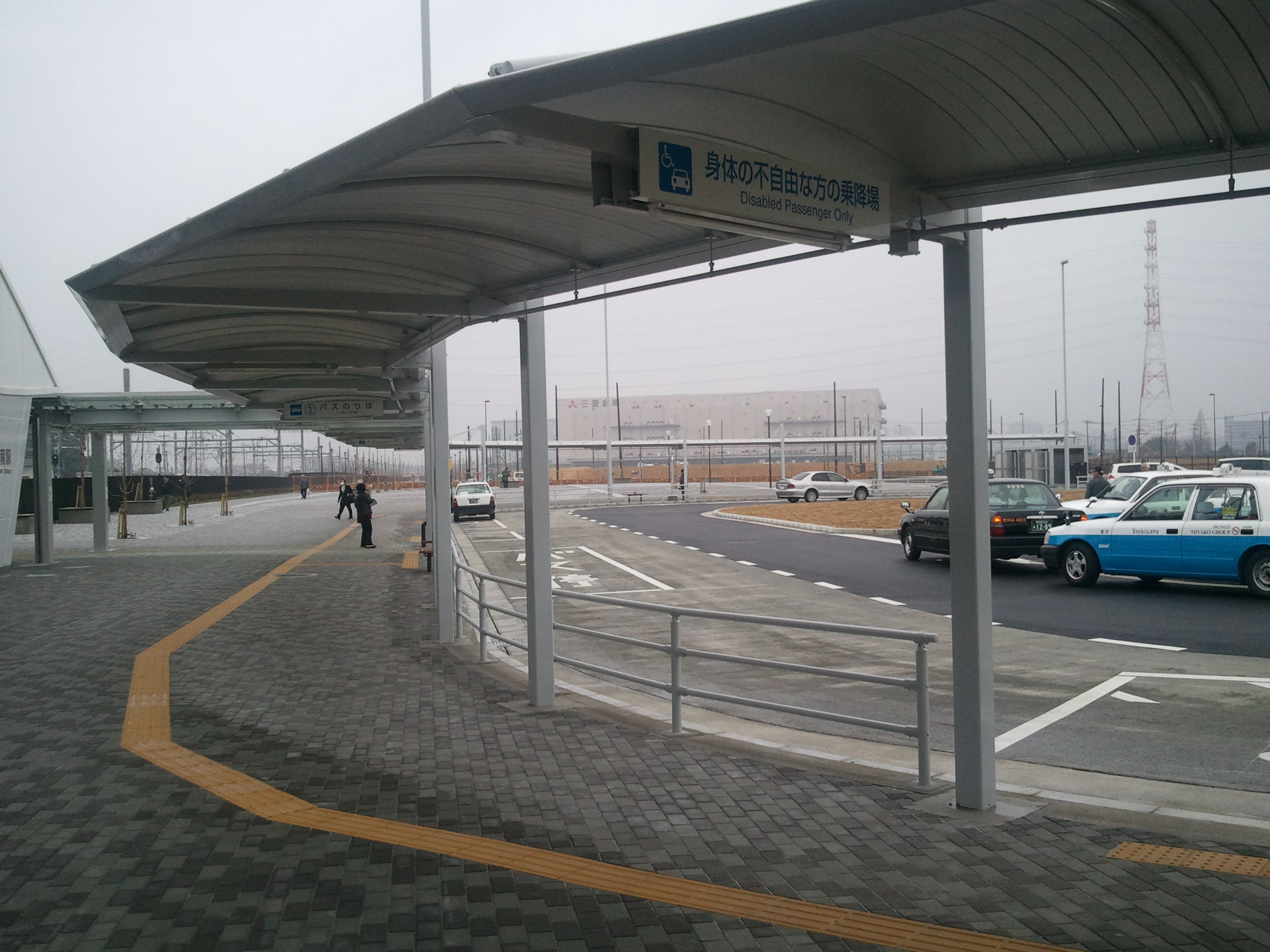 JR Yoshikawa-Minami station west rotary, JR吉川美南駅西口ロータリー